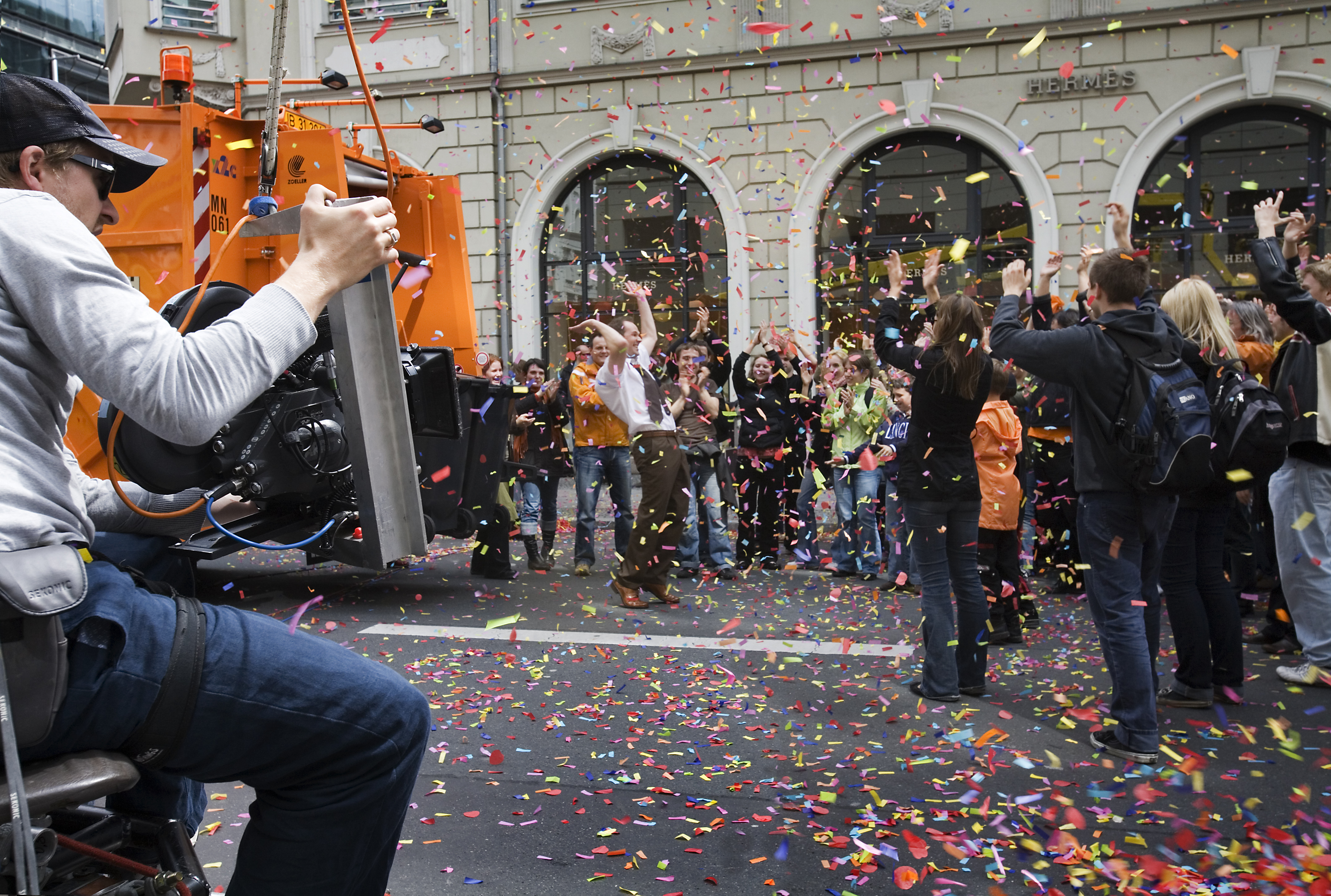 Production of a TV commercial videoclip Berlin, Germany